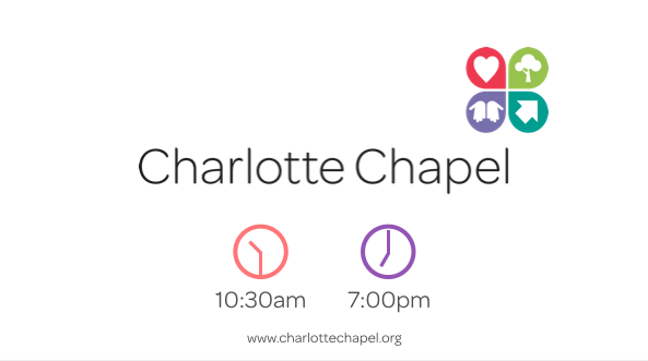 Love Grow Serve Go